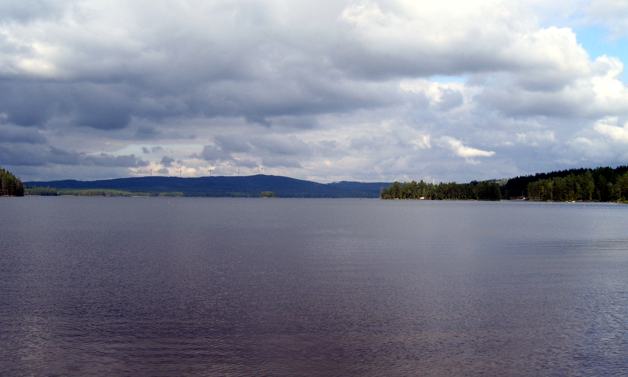 Norra Hörken, lake in Västmanland, Sweden